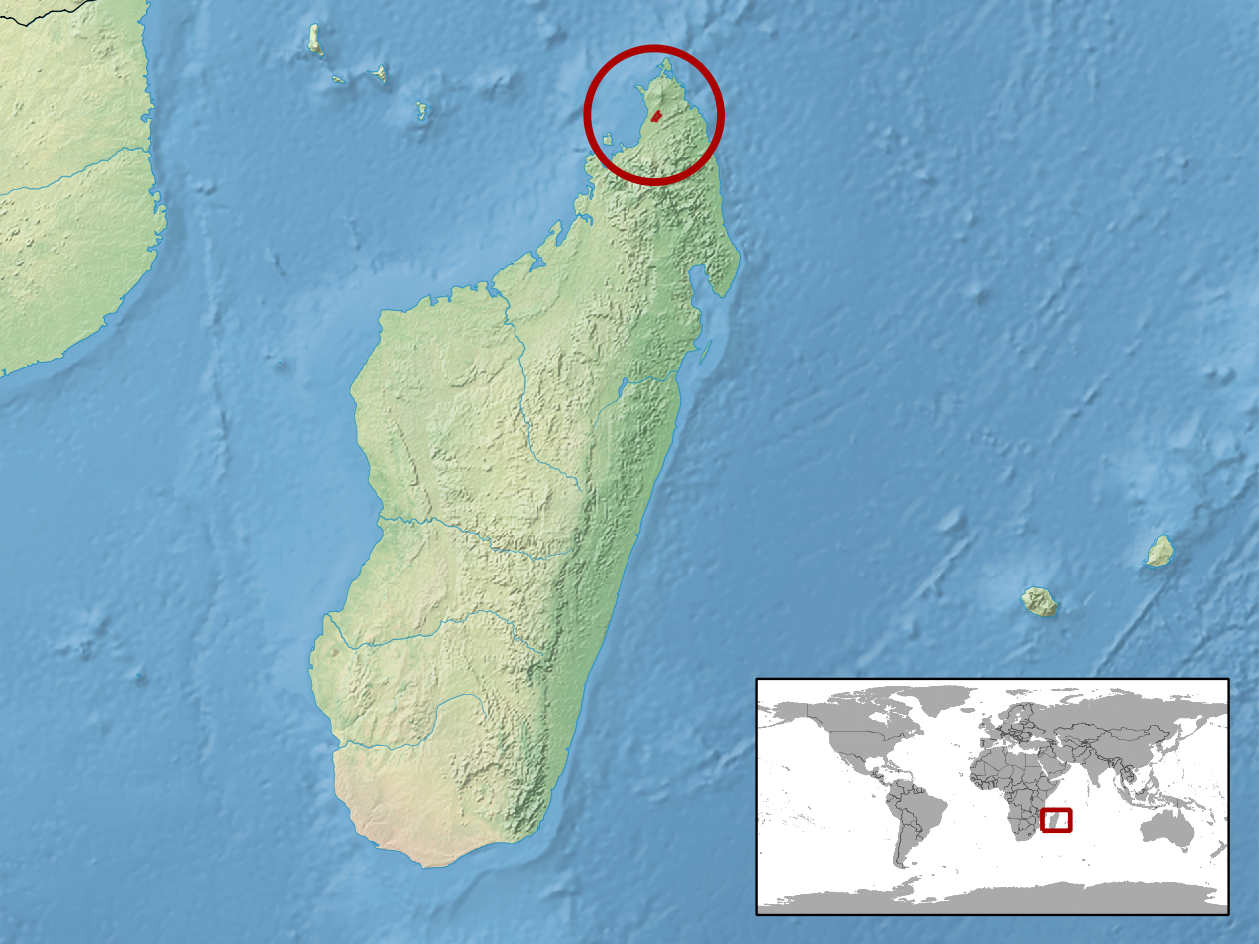 geographic distribution of Phelsuma roesleri (Native: Madagascar)